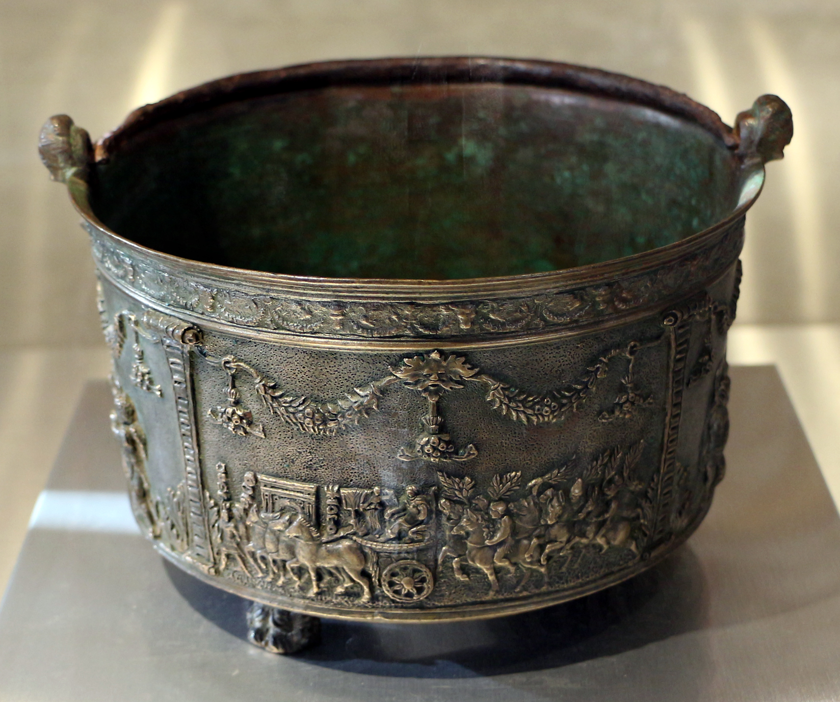 Sculptures in the Buonconsiglio Castle